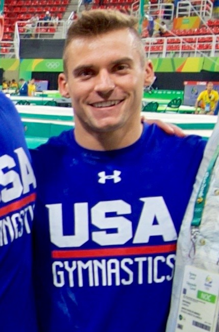 U.S. Secretary of State John Kerry and fellow members of the U.S. Presidential Delegation to the Summer Olympics pose for for a photo with the U.S. men's Olympic gymnastics team on August 6, 2016, at Olympic Park in Rio de Janeiro, Brazil. [State Department Photo/ Public Domain]